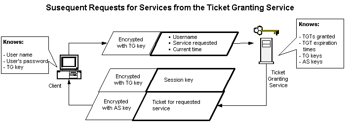 play